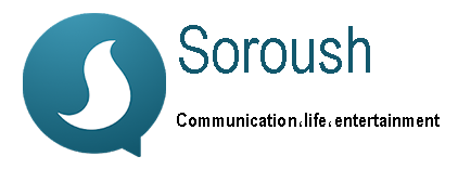 سروش پیام رسان